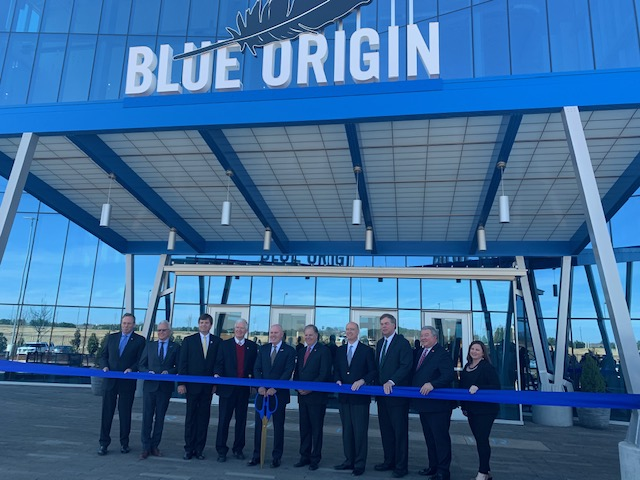 It was an honor to help cut the ribbon on the new @blueorigin rocket engine plant in Huntsville this morning. This plant, and the other high tech industries that are moving here and expanding here, are a testament to how I believe this new decade is going to be Alabama's decade.